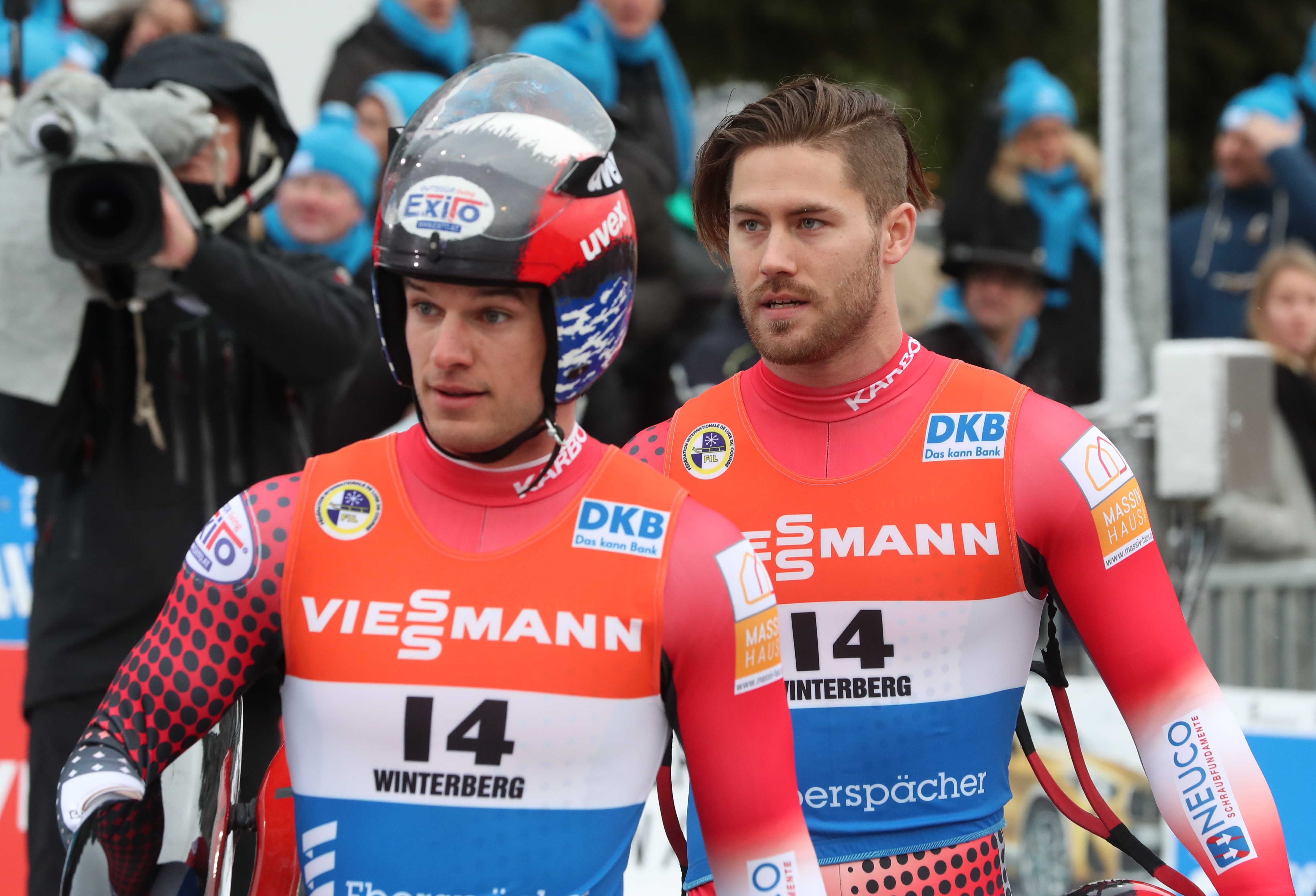 Luge World Cup Doubles in Winterberg: Tristan Walker, Justin Snith